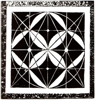 Giordano Bruno, "Figura amoris", from "Articuli centum et sexaginta adversus huius tempestatis mathematicos atque philosophos", 1588